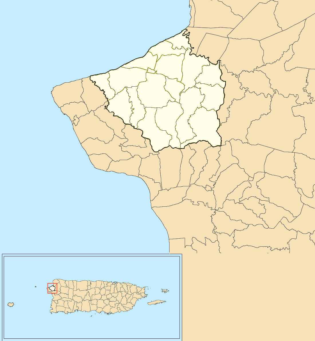 Barrios in the municipality. Map scale is 1:200,000